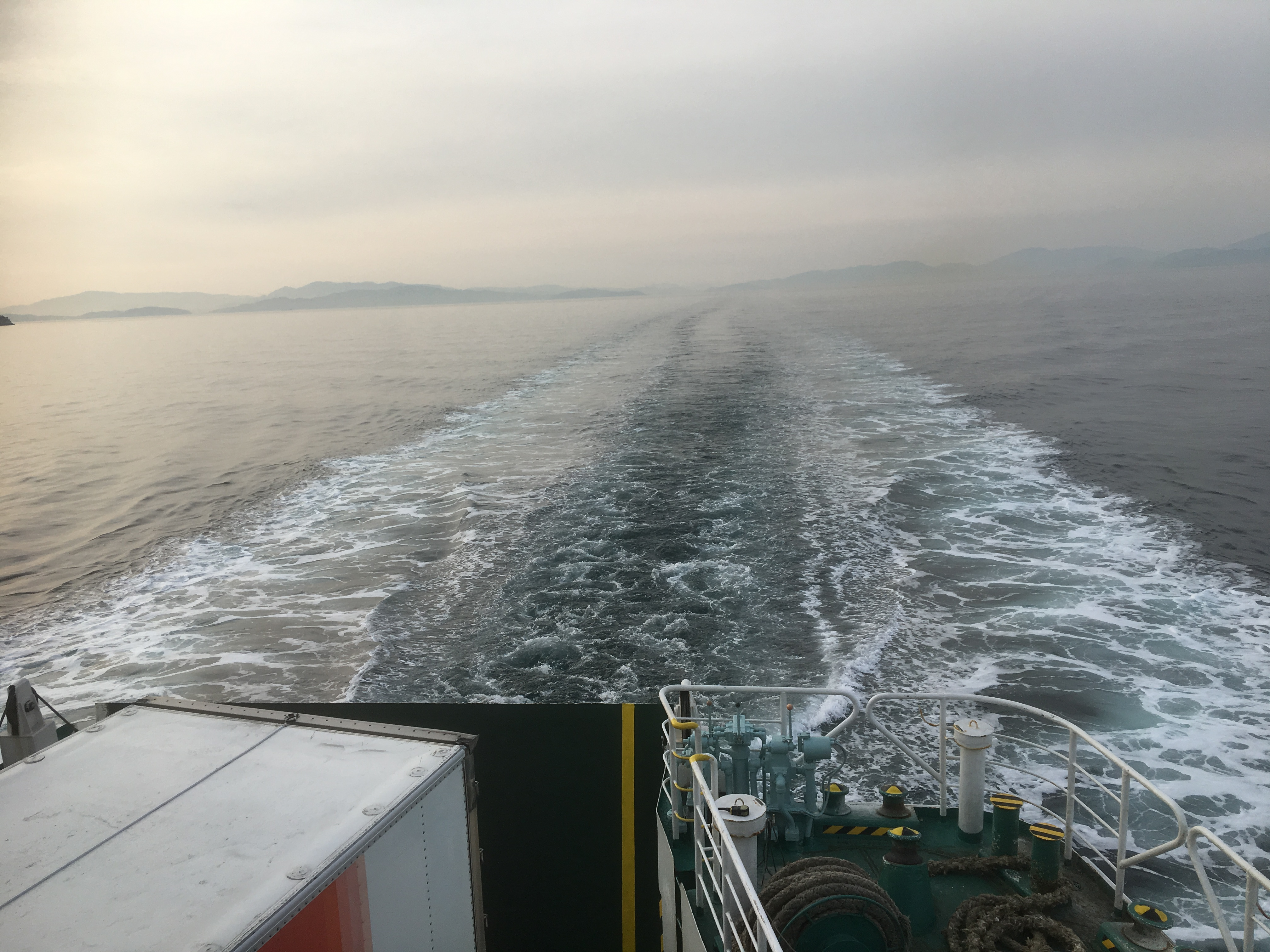 wake, KURE-MATSUYAMA ferry, Seto Inland Sea, JAPAN 2017